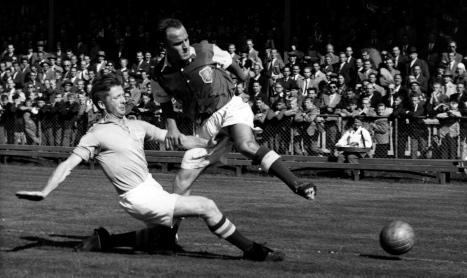 Sune Sandbring in a game with Frank "Sanny" Jacobsson from Gais in allsvenskan 1953